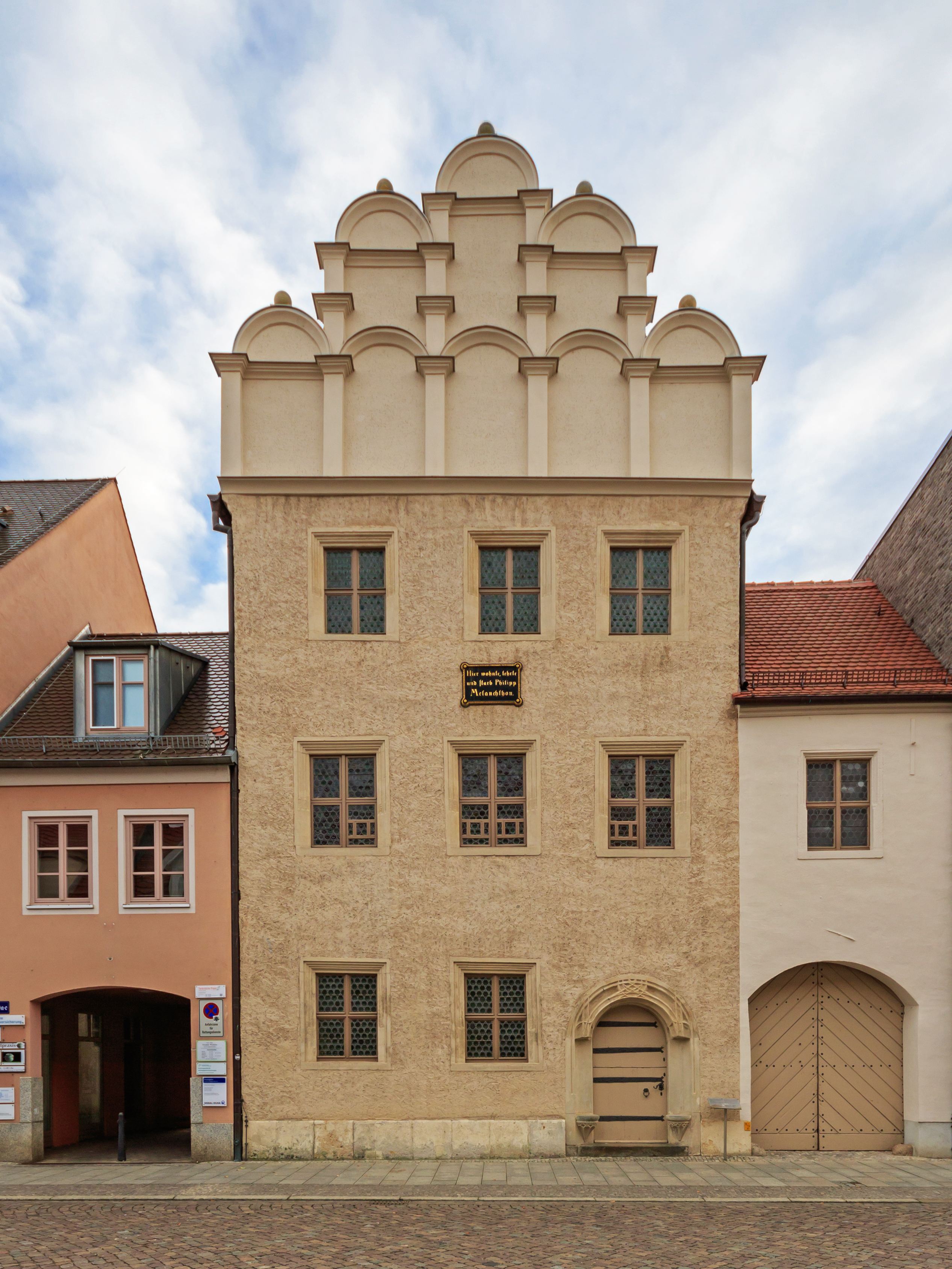 Philipp Melanchthon's House in Wittenberg, Saxony-Anhalt, Germany